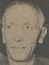 Ettela'at newspaper, No.14741, dated Tir 3, 1354 (24 June 1975), page 29.